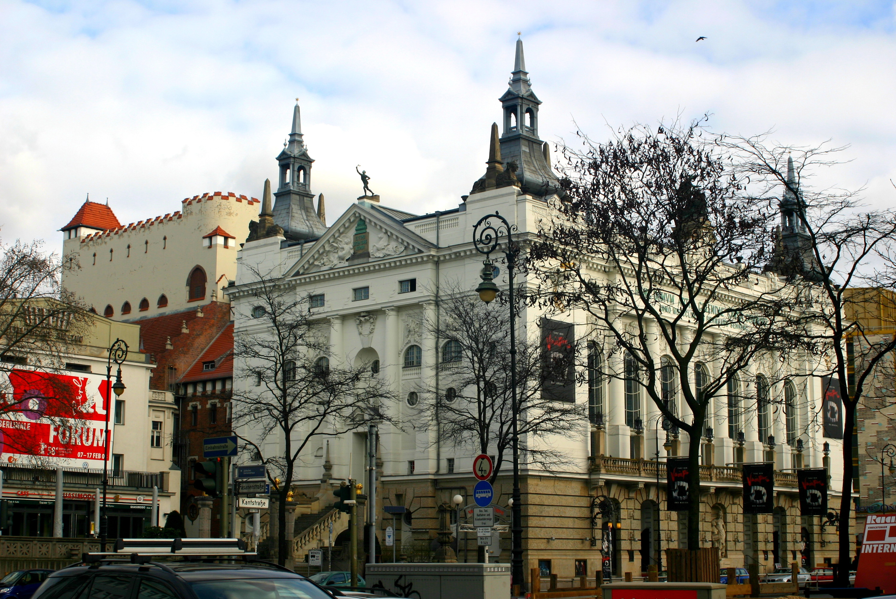 theater des westens, berlin, february 2008